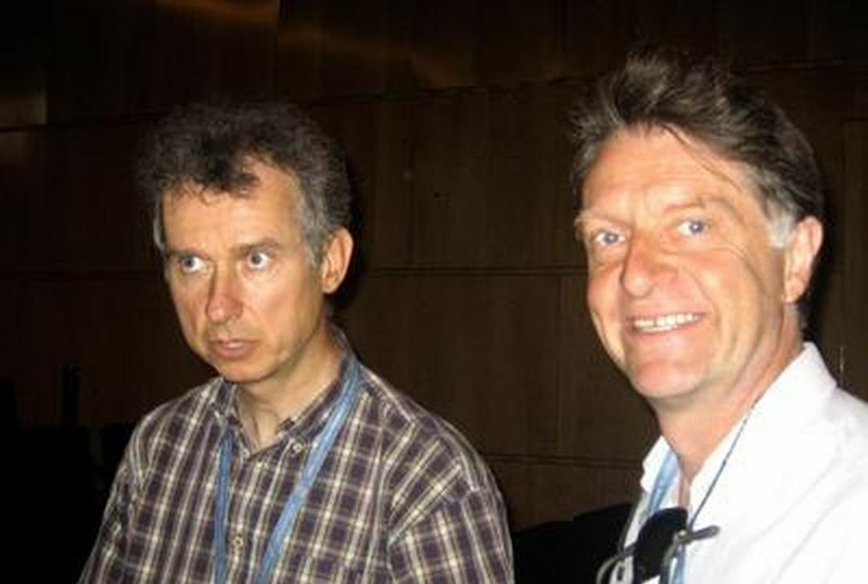 Guy Henniart (right), Jean-Francois Le Gall, 2006, ICM Madrid